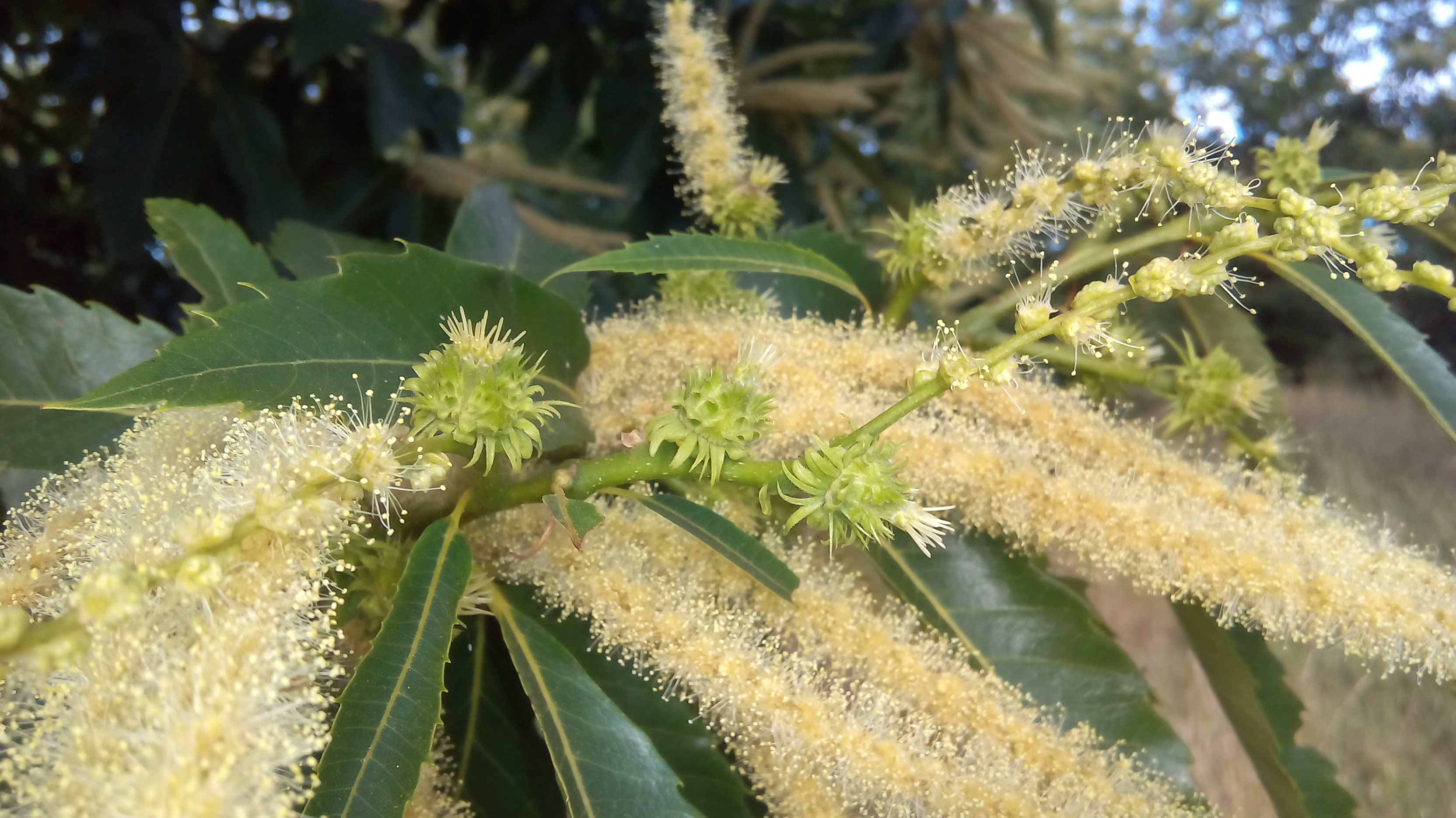 Sweet chestnut´s flowers. Several male flowers with lots of yellow stamen; three female flowers in the center of the picture